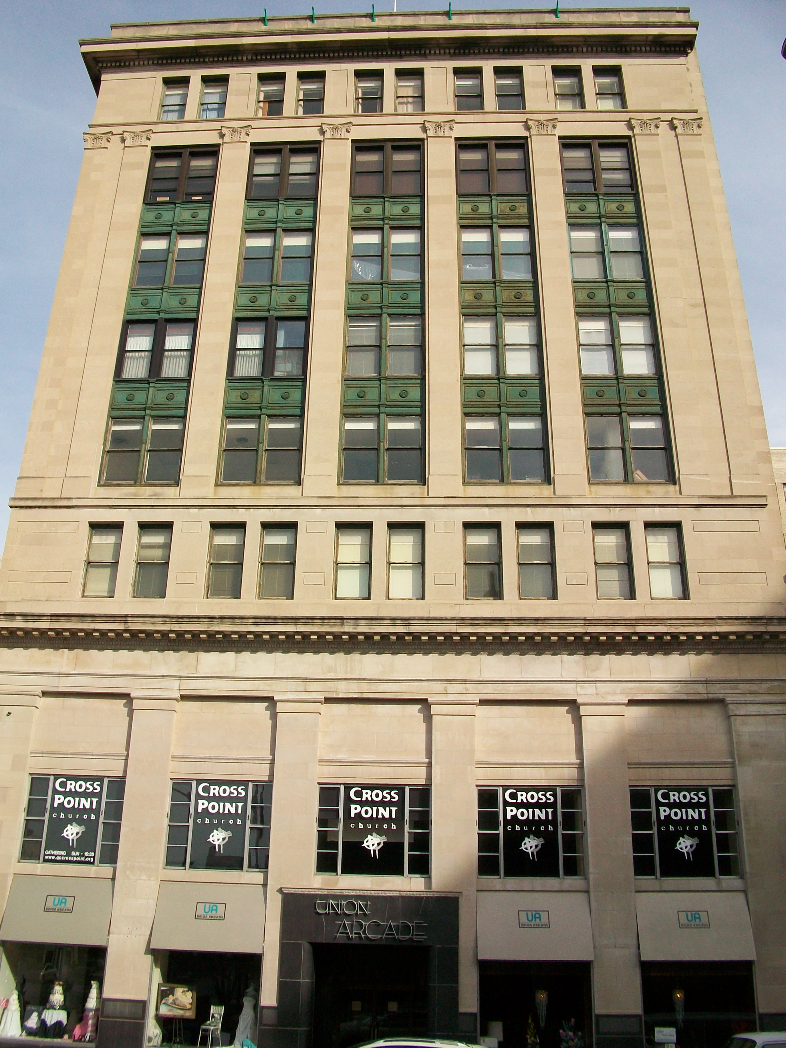 Union Arcade in Davenport, iowa